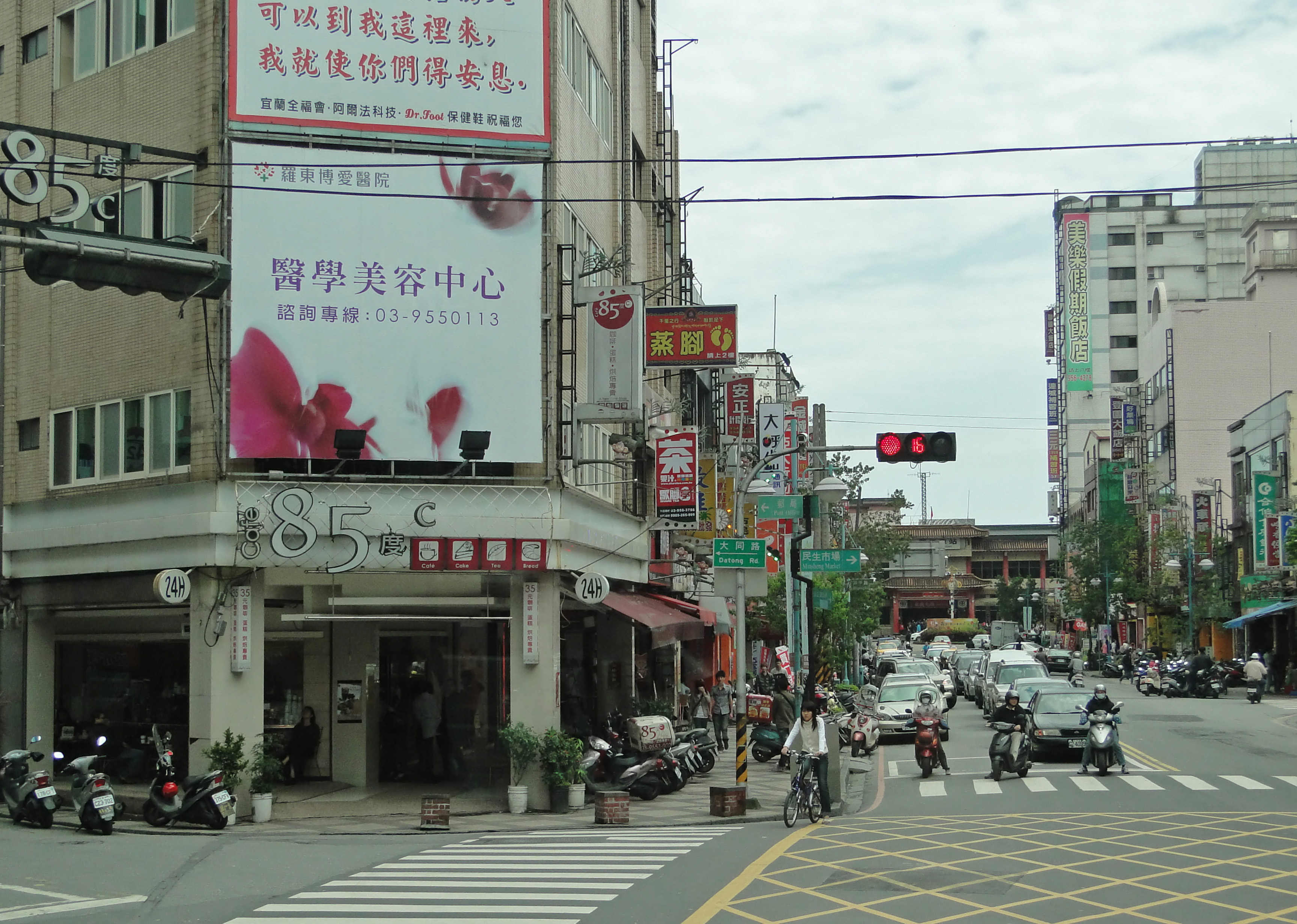 Street of Luodong, Yilan County, Taiwan